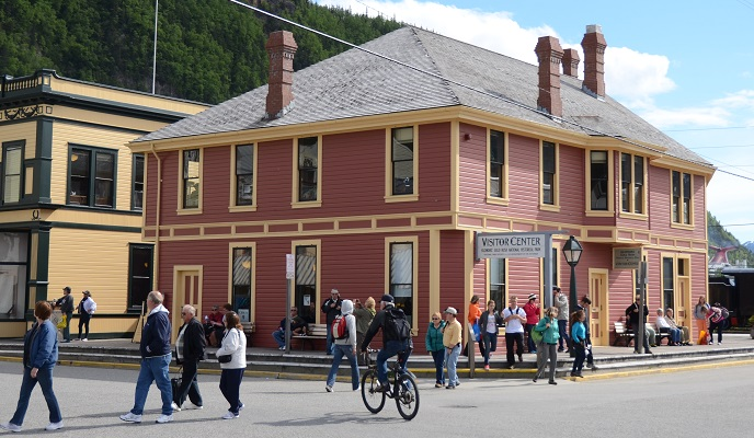 Old depot of the White Pass and Yukon Railway in Skagway, Alaska as Visitors Center of Klondike Gold Rush National Historical Park